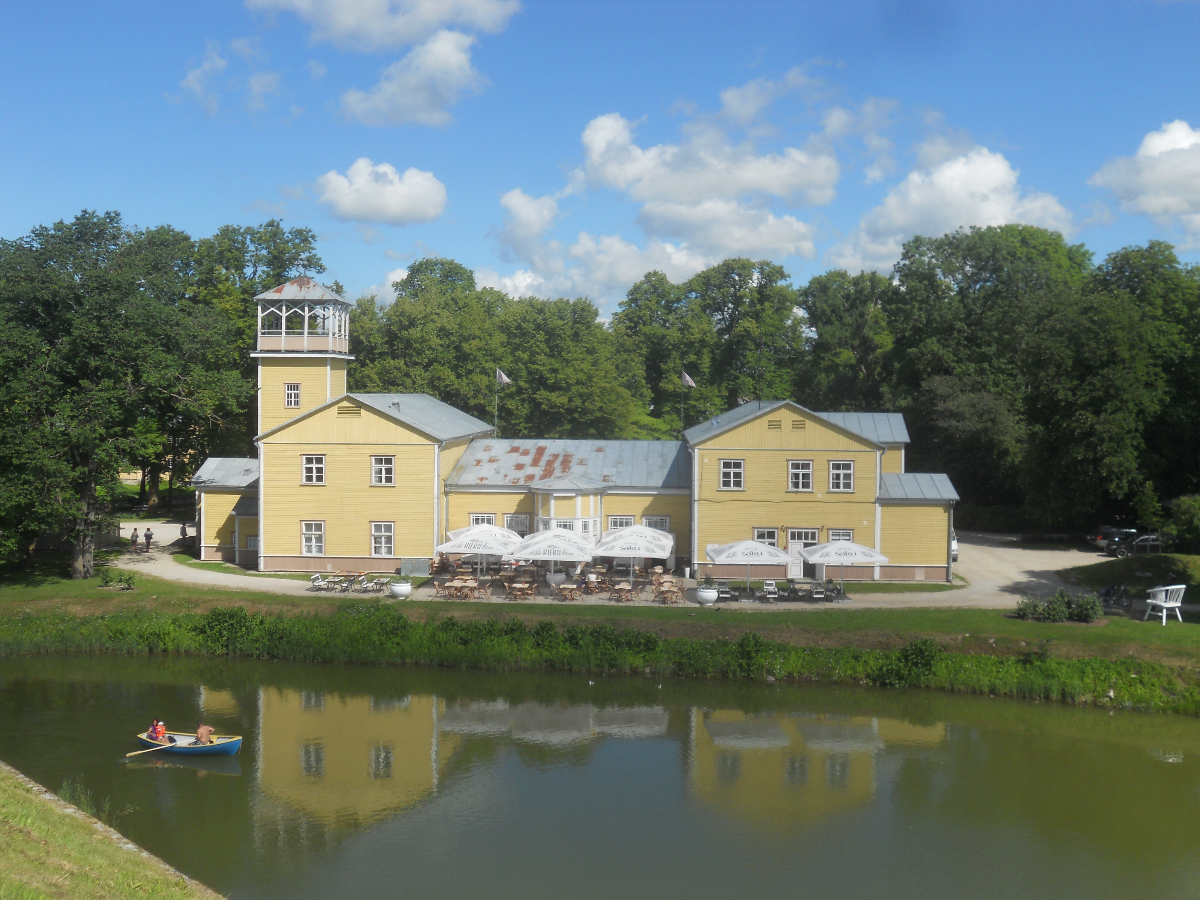 Kuressaare, Spa hall